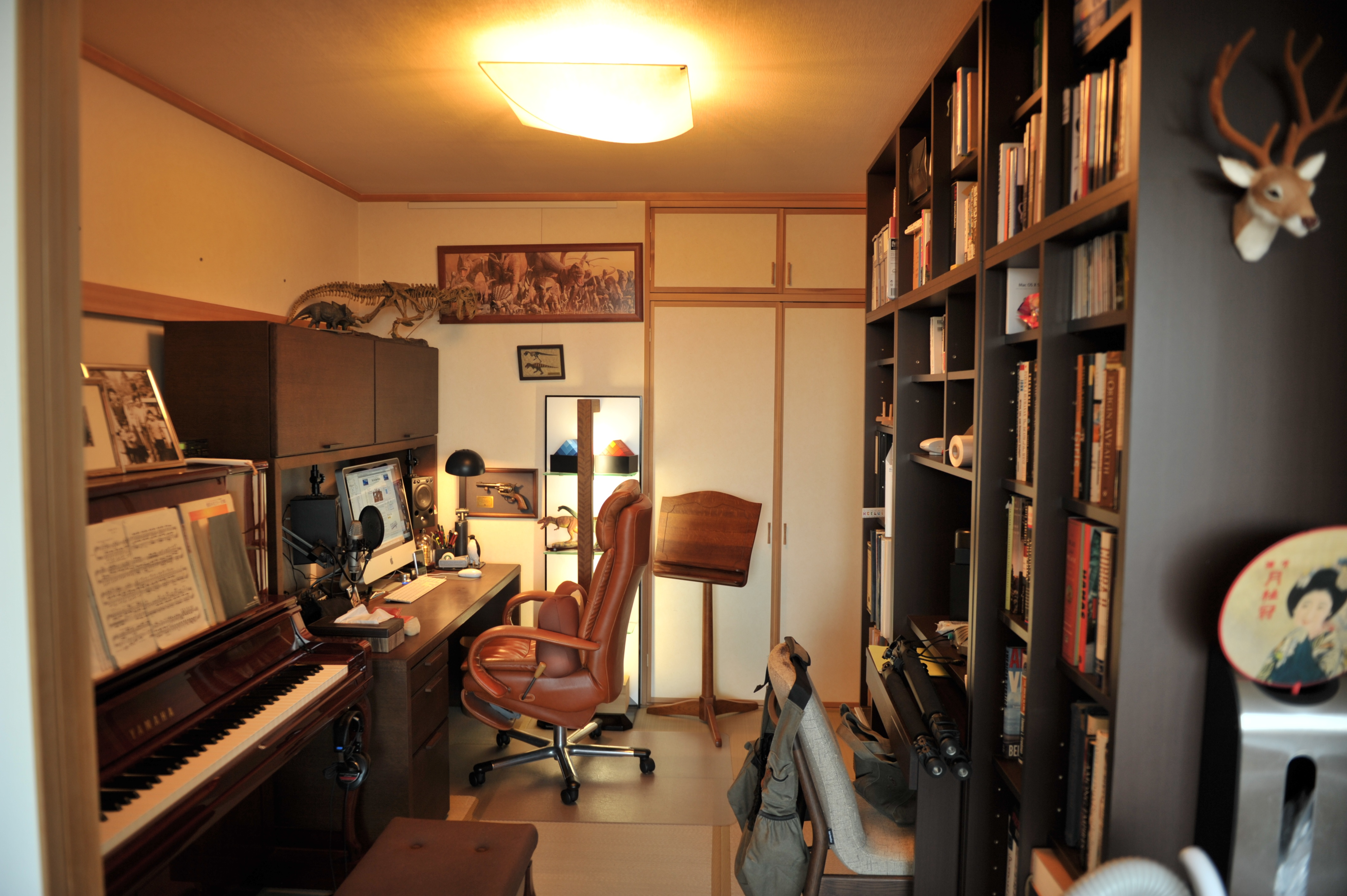 A Japanese man's home office, den, or "man cave" (as he refers to it) in his home in Sendai, Japan.